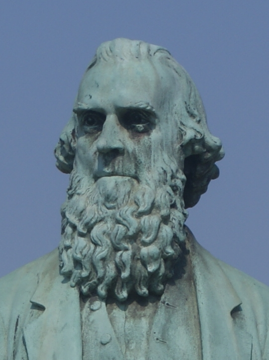 Bust of Josiah Mason, in Erdington, Birmingham